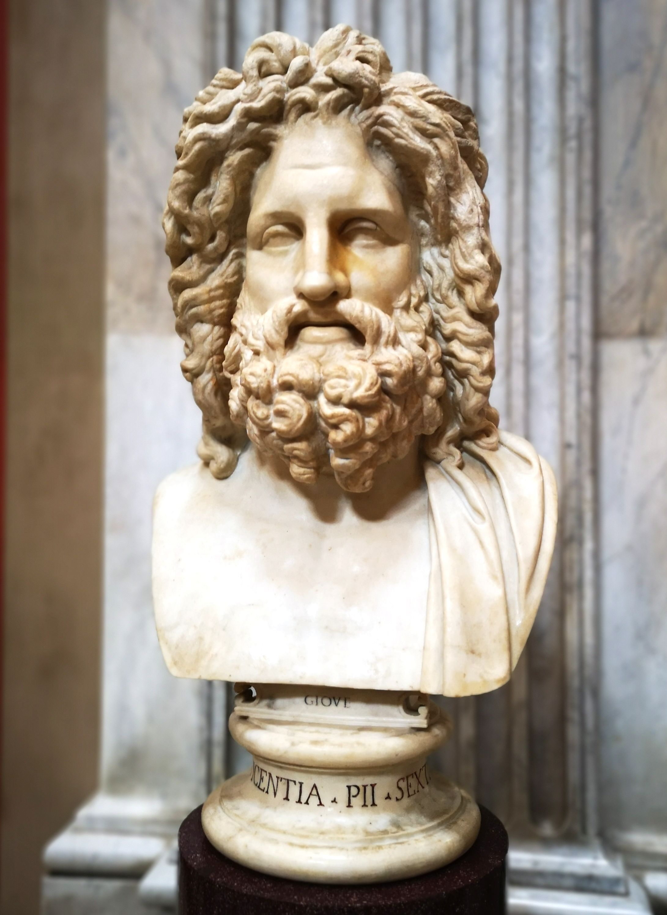 Statue of Jupiter (from Latin: Iūpiter [ˈjuːpɪtɛr] or Iuppiter [ˈjʊppɪtɛr][1], from Proto-Italic *djous “day, sky” + *patēr “father," thus "heavenly father"), also known as Jove gen. Iovis [ˈjɔwɪs]), is the god of the sky and thunder and king of the gods in Ancient Roman religion and mythology. Jupiter was the chief deity of Roman state religion throughout the Republican and Imperial eras, until Christianity became the dominant religion of the Empire. In Roman mythology, he negotiates with Numa Pompilius, the second king of Rome, to establish principles of Roman religion such as offering, or sacrifice.